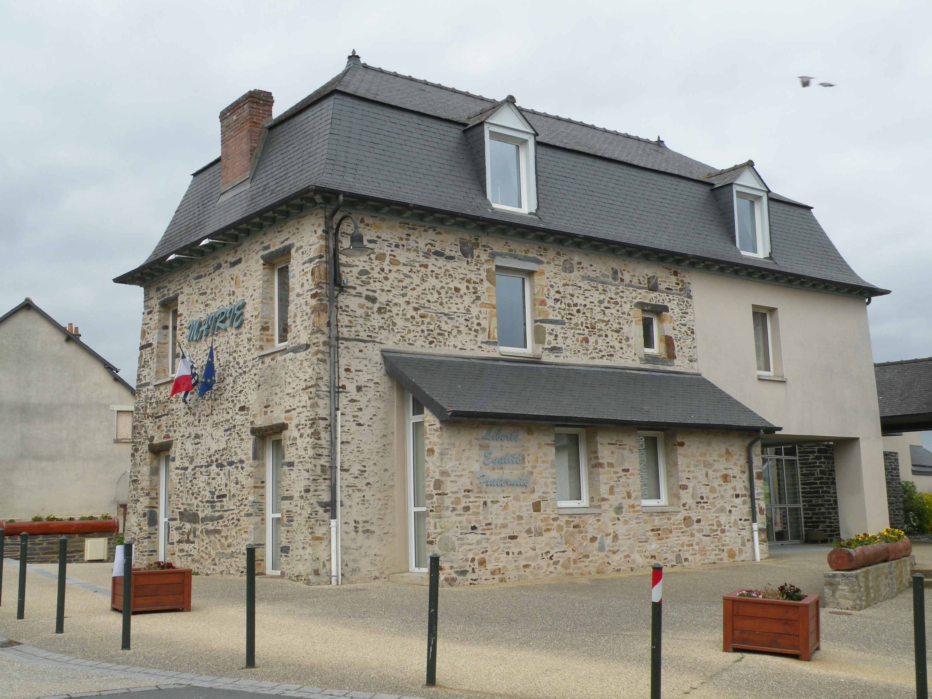 Town hall of Nouvoitou